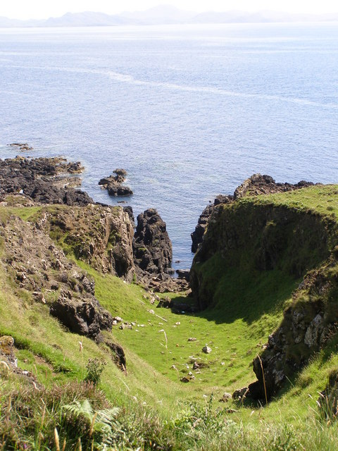 South-west coast of Muck Steep rocky valley leading down to the sea on the Isle of Muck